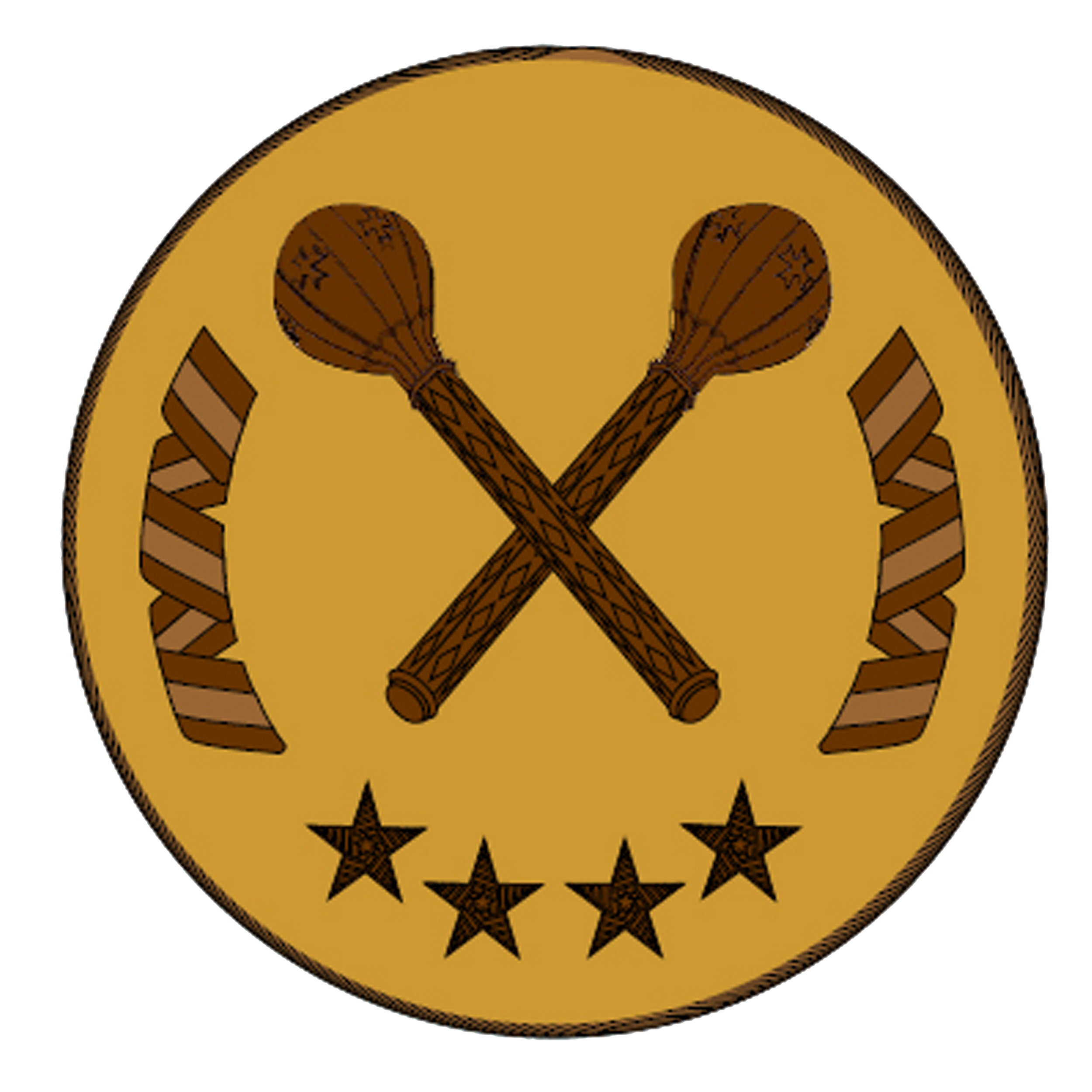 Emblem of the Chief of the General Staff of the Polish armed Forces – desert uniform.